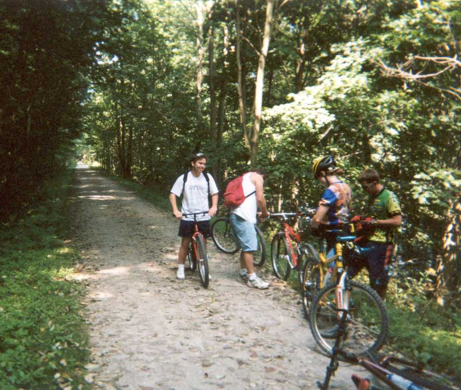 Youghiogheny River Trail upstream from Ohiopyle. Public domain image.